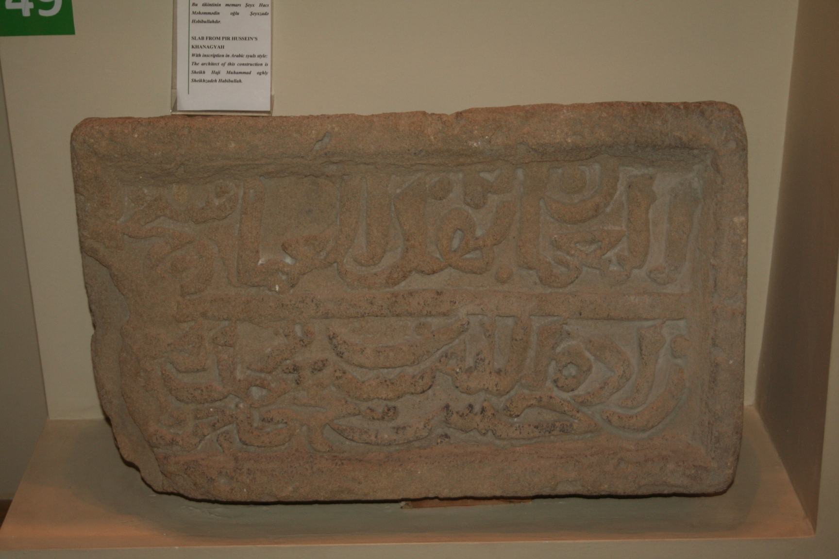 Khanagah of Pir Huseyn kitabe